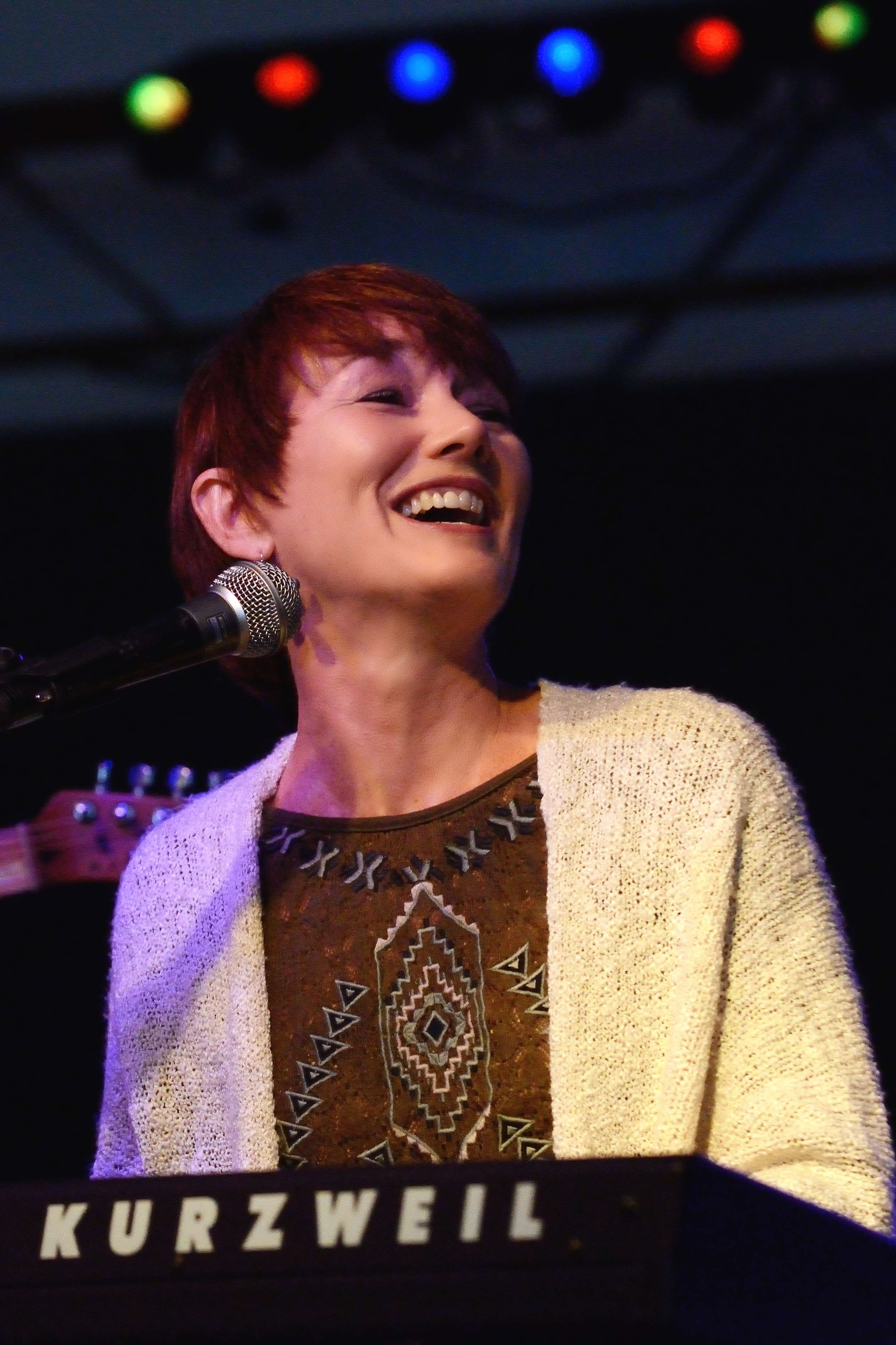 White performing on September 6, 2014